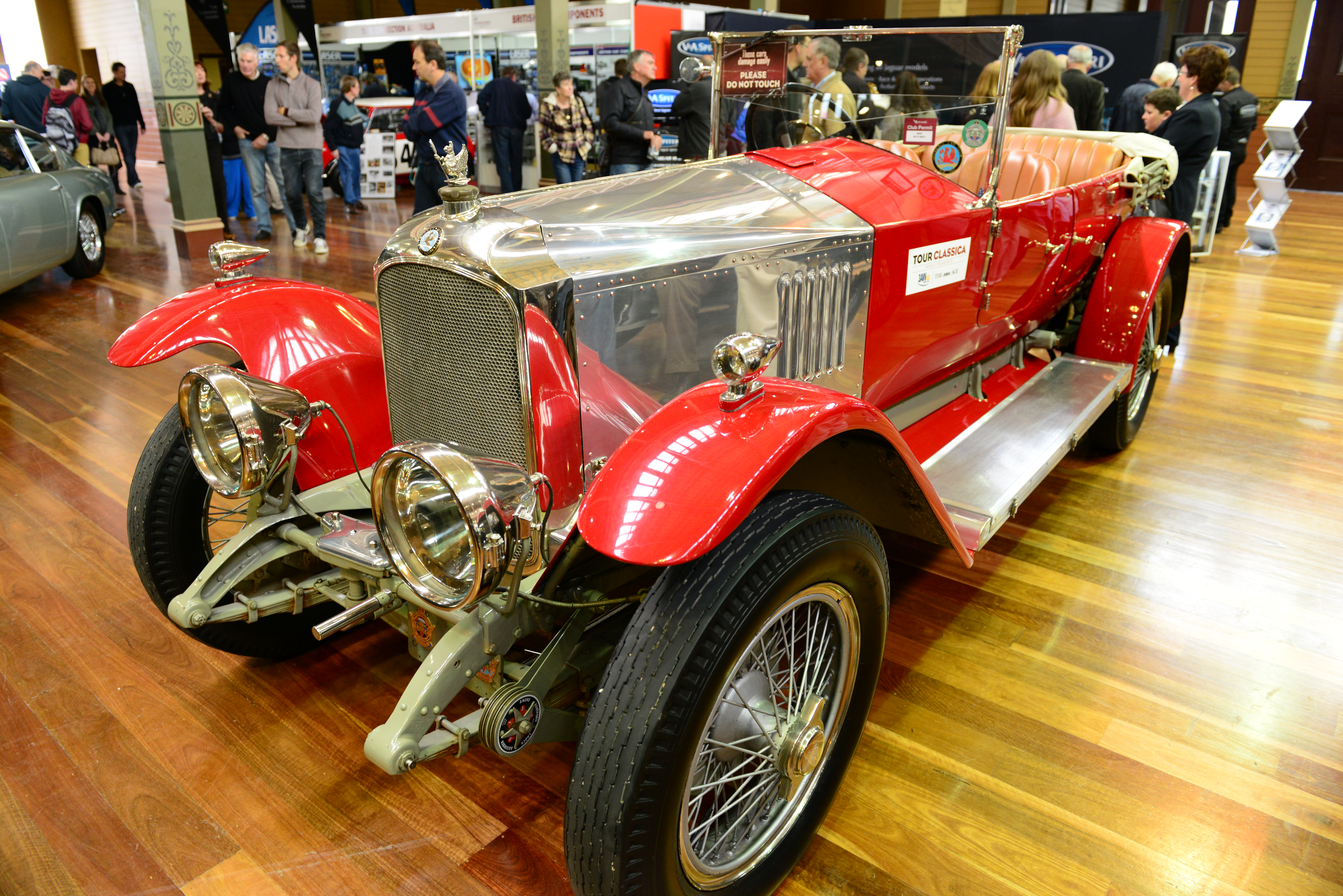 1924 Vauxhall 30-98 from the collection of George Hetrel, Victoria, Australia